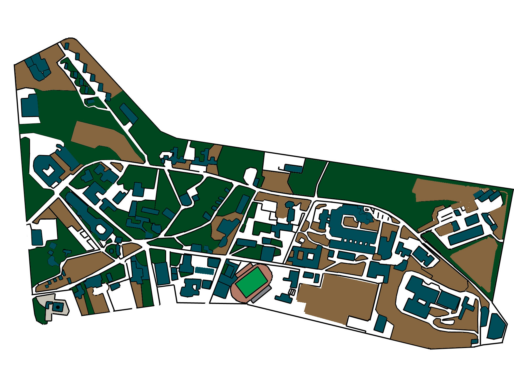 University of Jordan Native nameالجامعة الأردنيةLocationAmmanEstablished1962 User:Tarawneh/rami